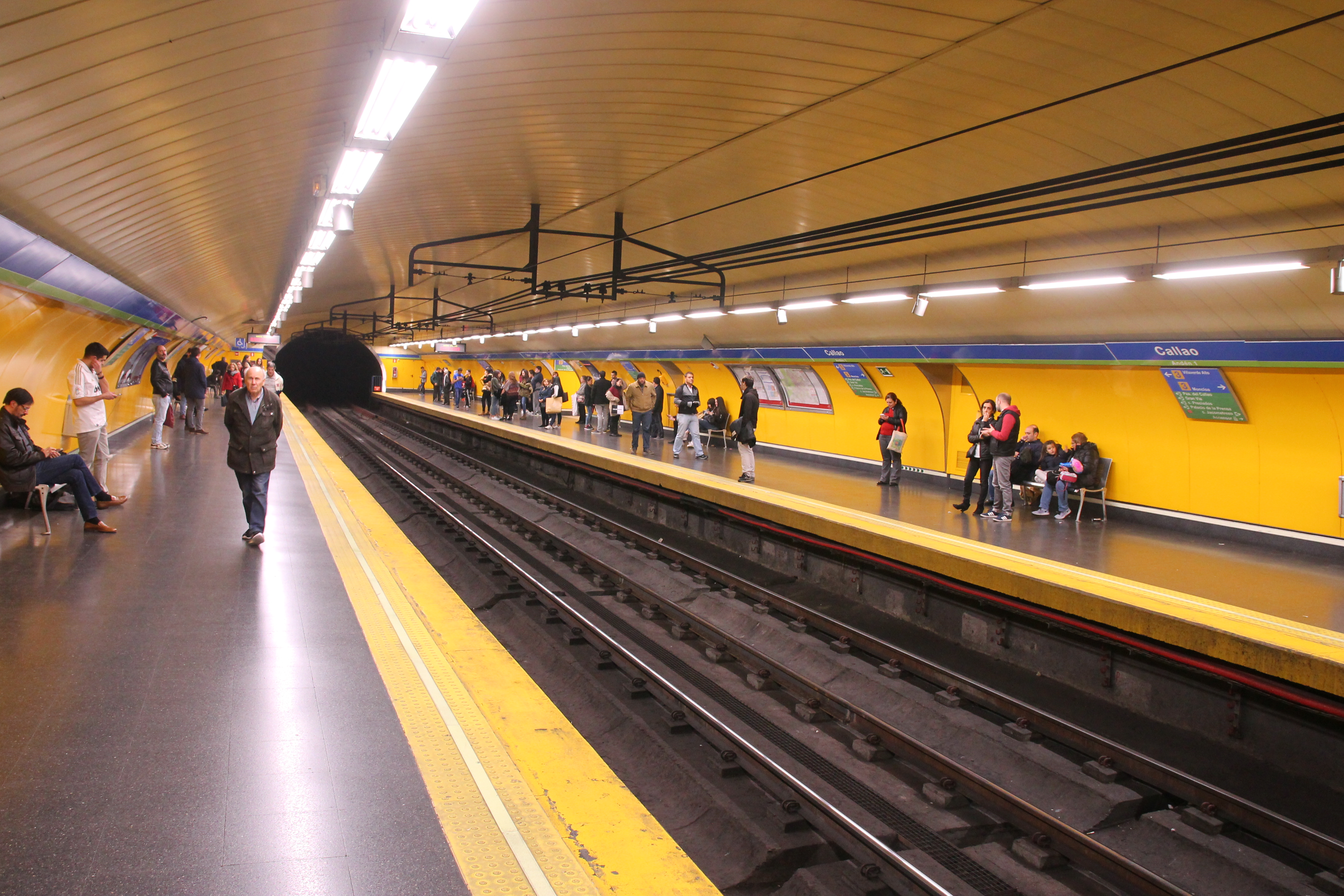 Estación de Callao